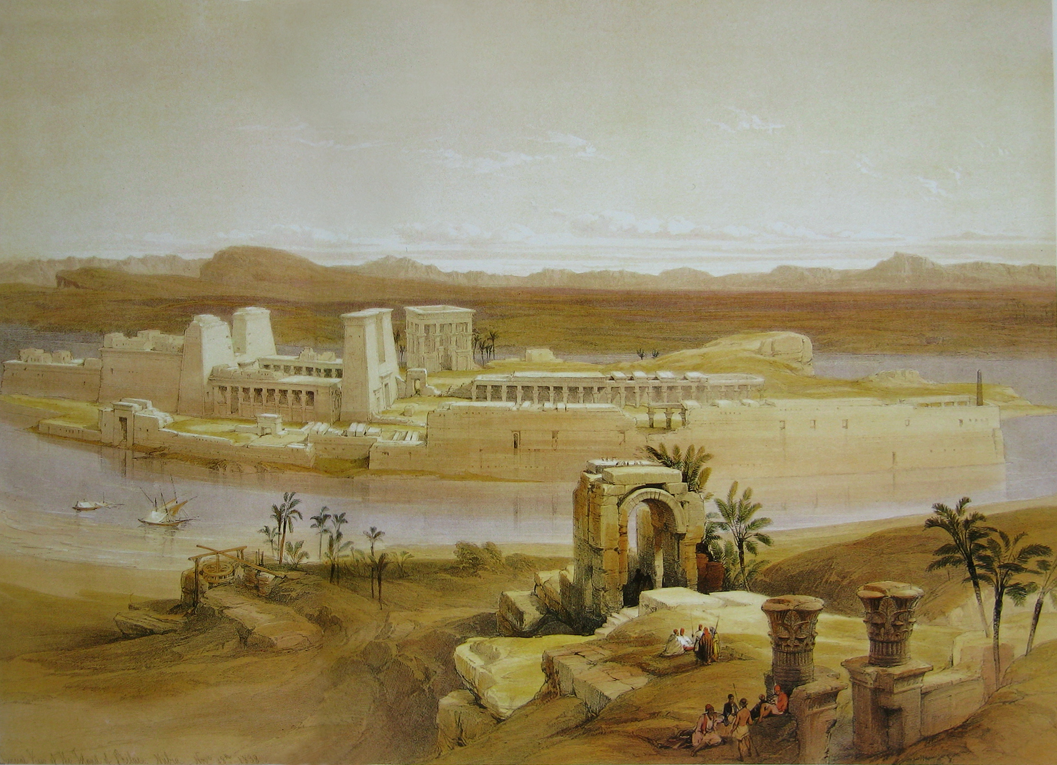 View of the Island of Philae with Isis Temple and Trajan's Kiosk, in the Nile, Nubia. Island of Bigeh and its ruins in foreground. 1838 painting by David Roberts.